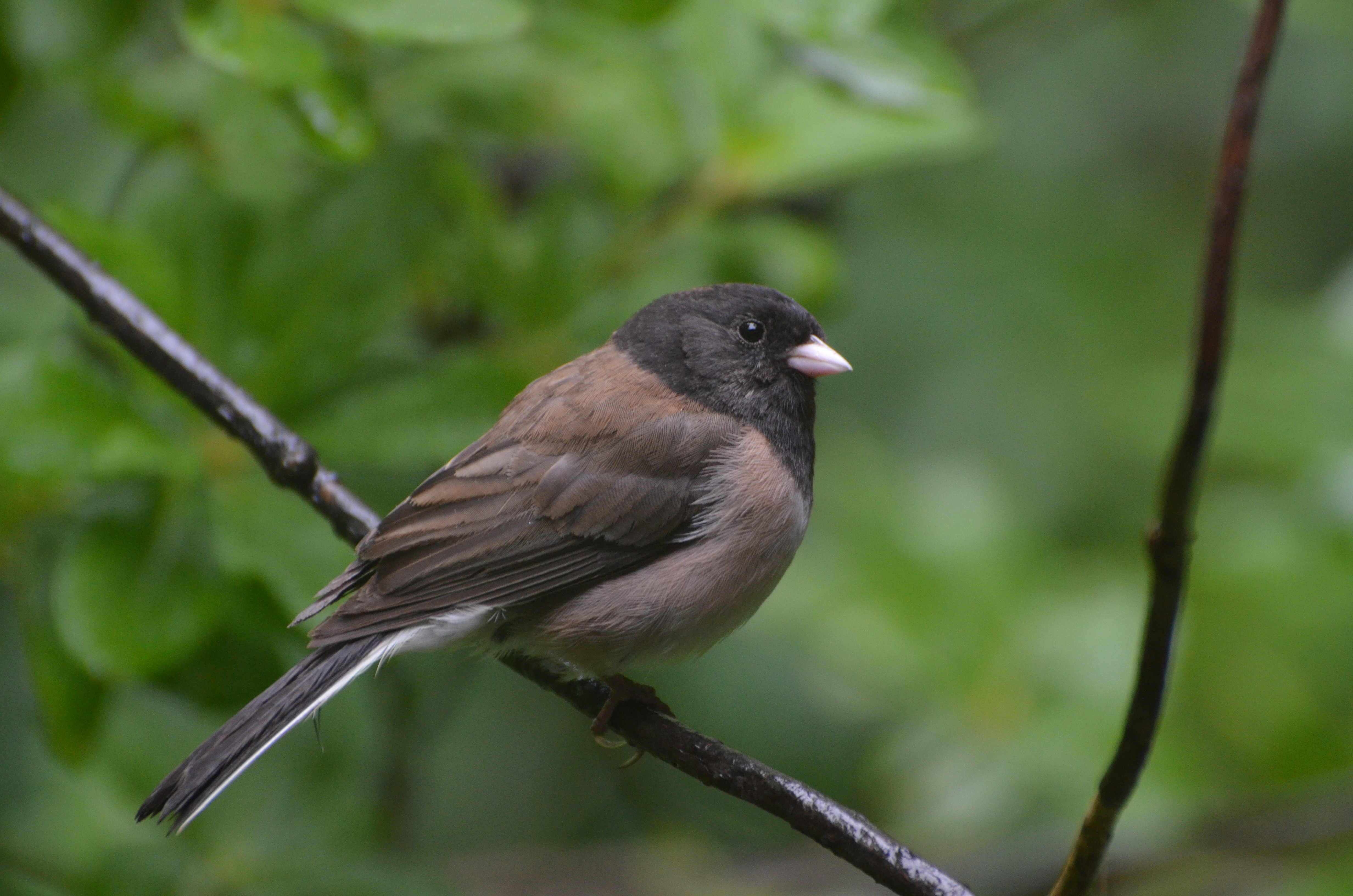 A Dark-eyed Junco in coastal Oregon, United States. This individual is of the oreganus subspecies group, previously recognized as a separate species Oregon Junco, and appears to be of the subspecies simillimus.